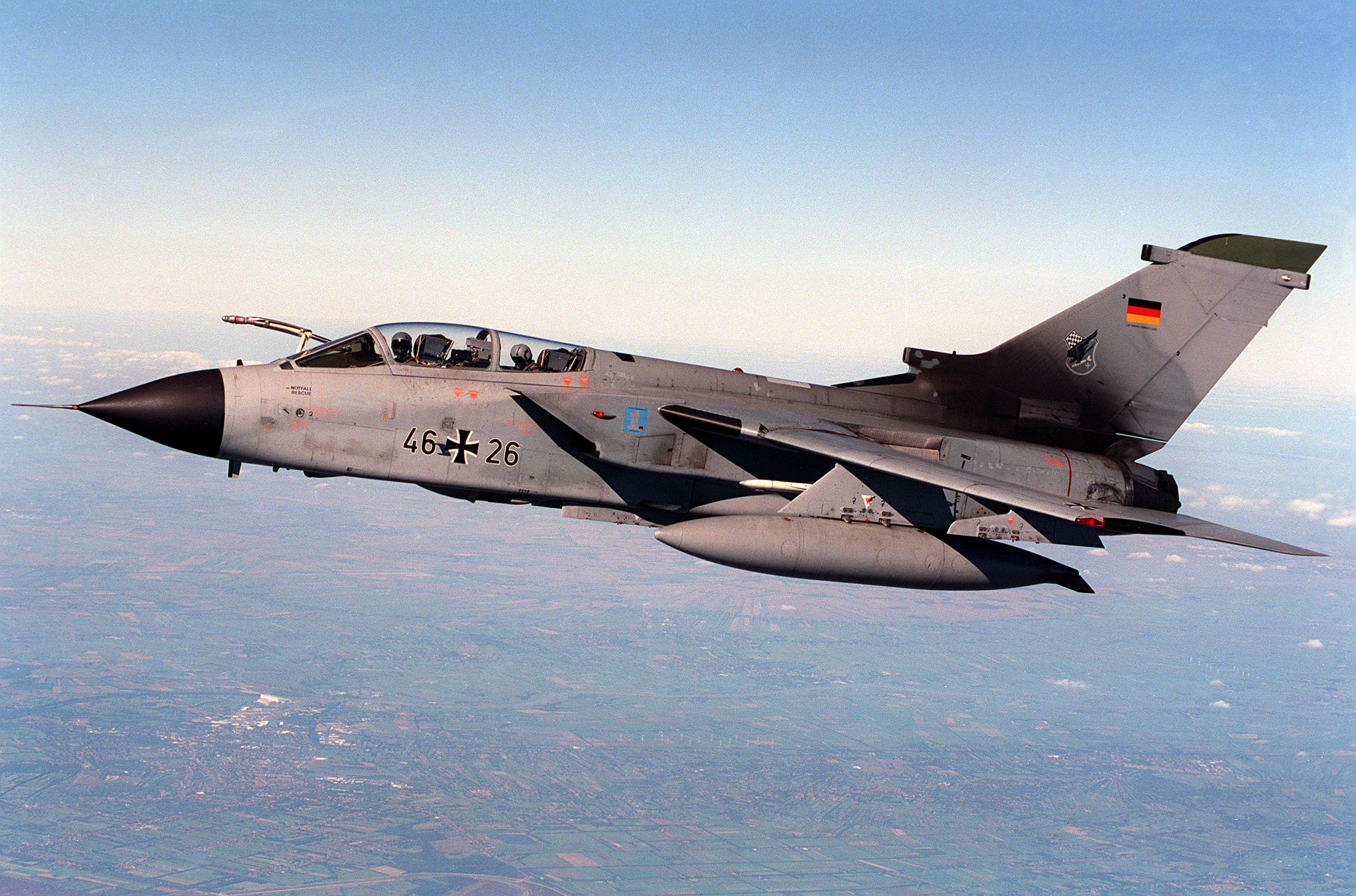 A German Panavia Tornado ECR Wild Weasel aircraft (s/n 46+26) of Jagdbombergeschwader 32 (JaBoG 32) (32nd Fighter-Bomber Wing) flies just forward of the right wing of a U.S. Air Force Boeing KC-135R Stratotanker of the 100th Aerial Refueling Squadron, waiting its turn to be refueled, on 22 September 1997.